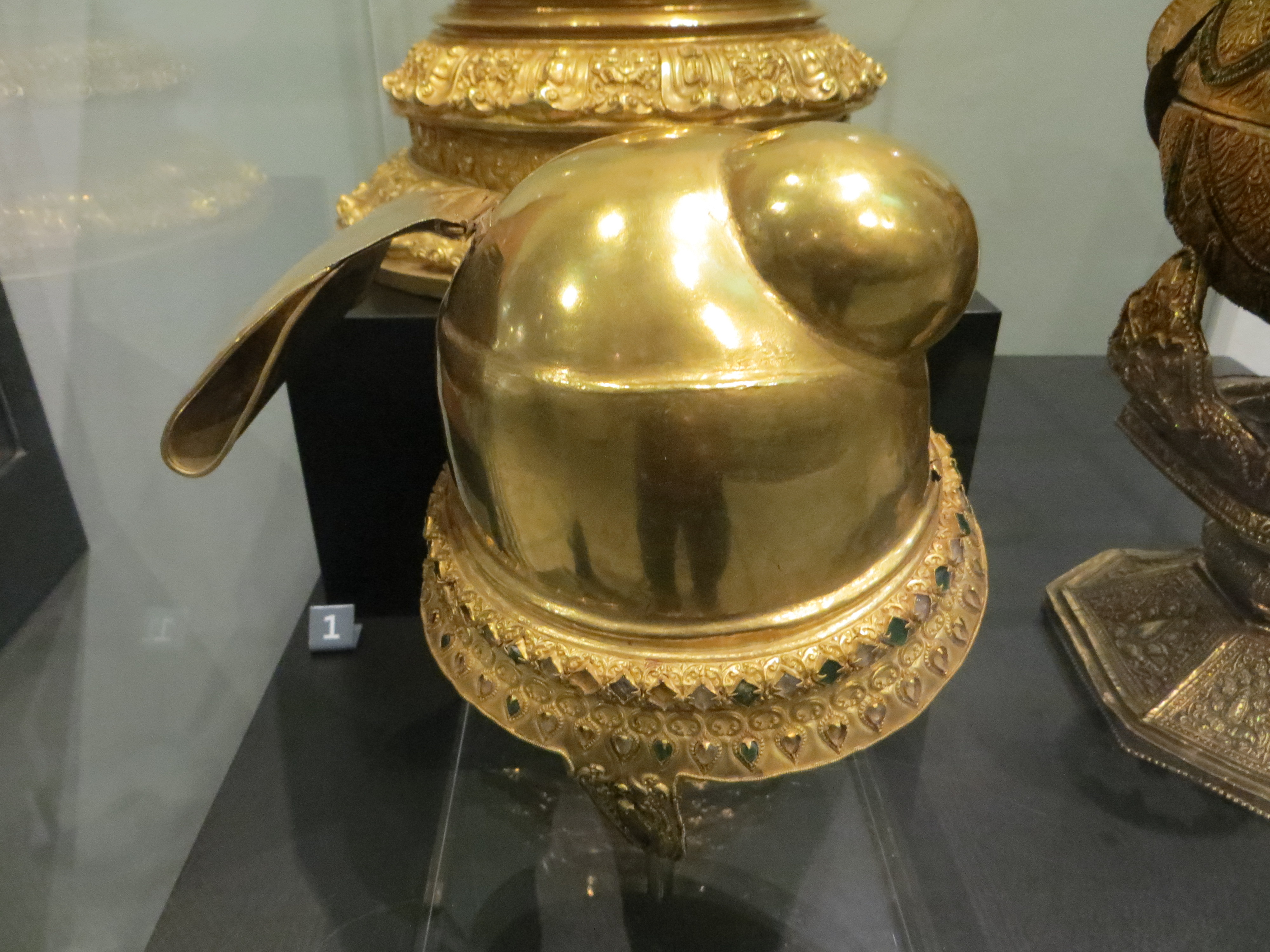 This head-dress set with jewels formed part of a gold hoard dating to the 15th century Mon Kingdom of Pegu. It is believed to be the ceremonial helmet worn by the Mon Queen Shinsawbu (r.1453-1460). Shaped like a turban the dome is moulded to possibly fit a coiled length of hair which was held in place by the long pin passed through the holes at the base. The unusual appendage with the lozenge shaped depression may have held a jewel and was worn to the front over the queen's nose. It was excavated by labourers when building barracks on the site of an old pagoda east of the Shwedagon Pagoda, Rangoon in 1855 and now at the Victoria and Albert Museum. Dimensions - Height: 19.7 cm, Diameter: 21.5 cm maximum